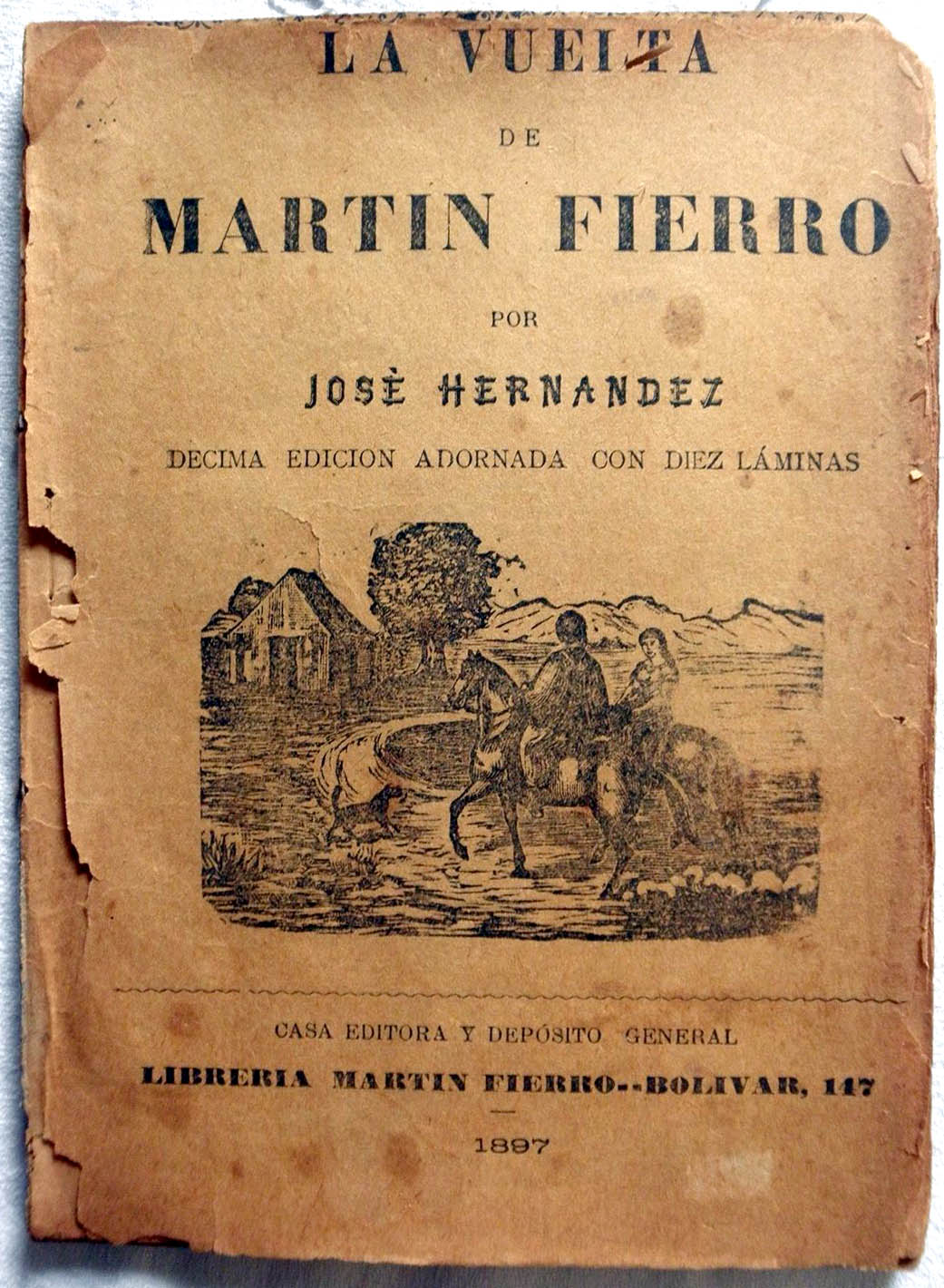 Cover for La Vuelta de Martín Fierro written by José Hernández and published in Argentina by Editorial Martín Fierro.